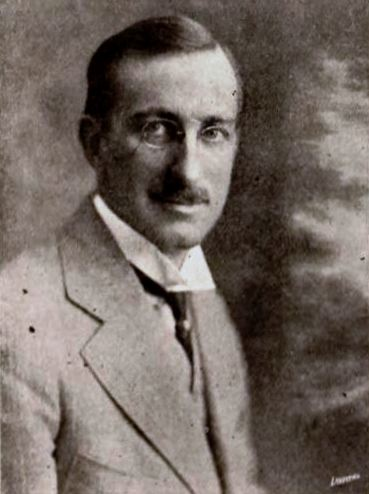 American playwright Richard Walton Tully, on page 56 of the July 23, 1921 Exhibitors Herald.